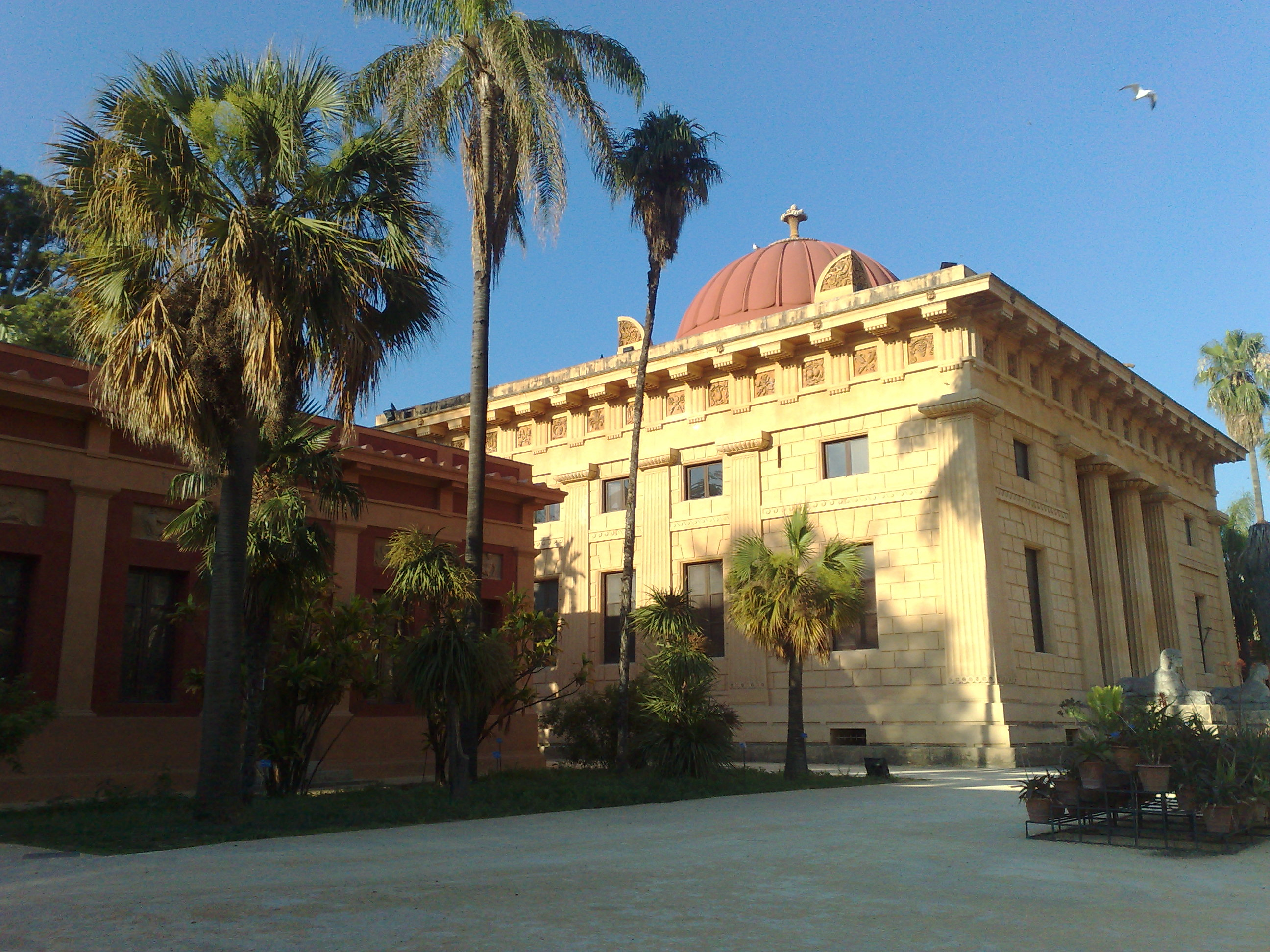 Orto Botanico di Palermo: c.d. Gymnasium. It was designed by French architect and archeologist Léon Dufourny and erected between 1785 e il 1795. The two Doric porchs on the facades were based on ancient Greek temple architecture of Sicily.